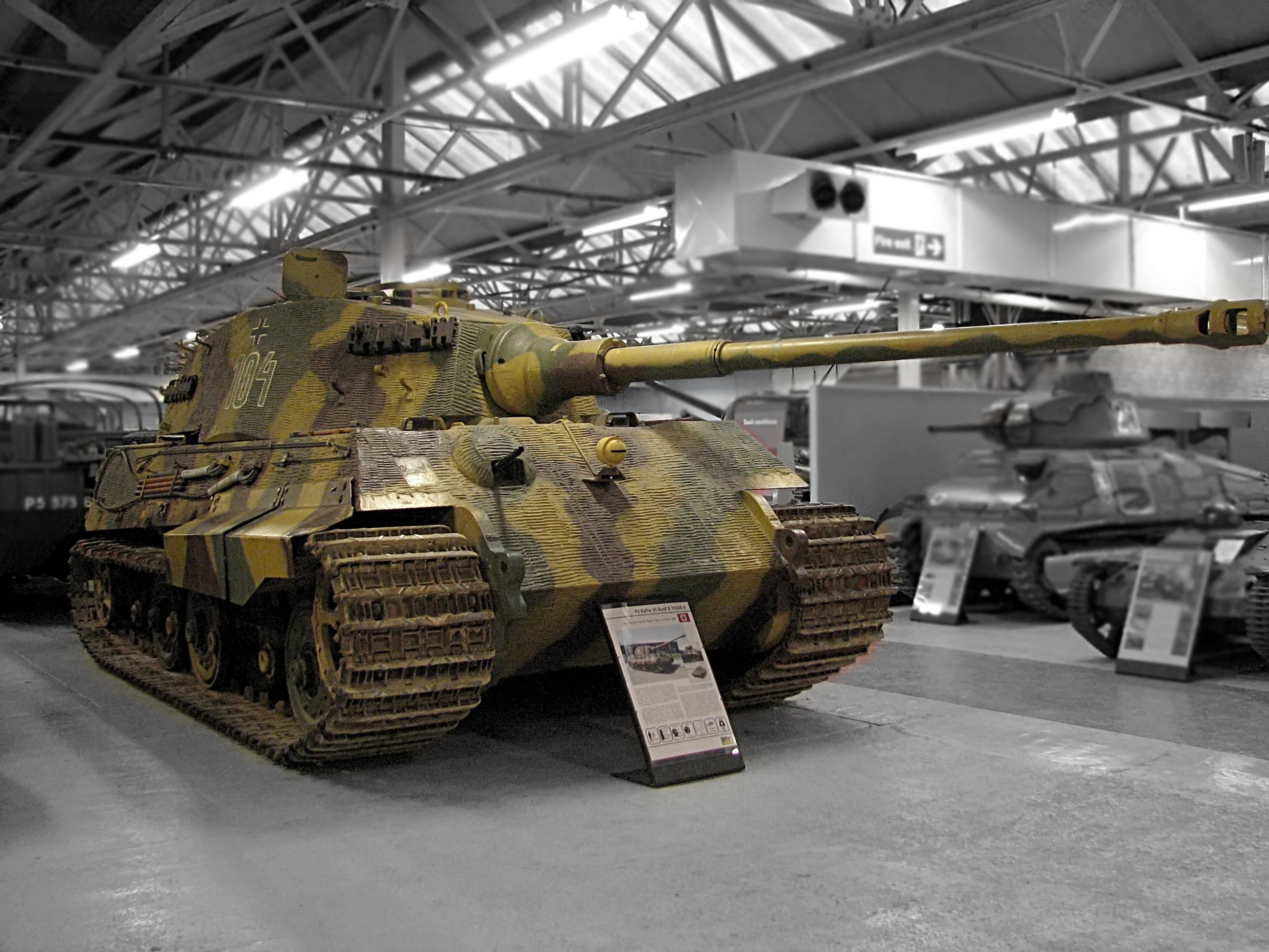 Tiger II at the Bovington Tank Museum